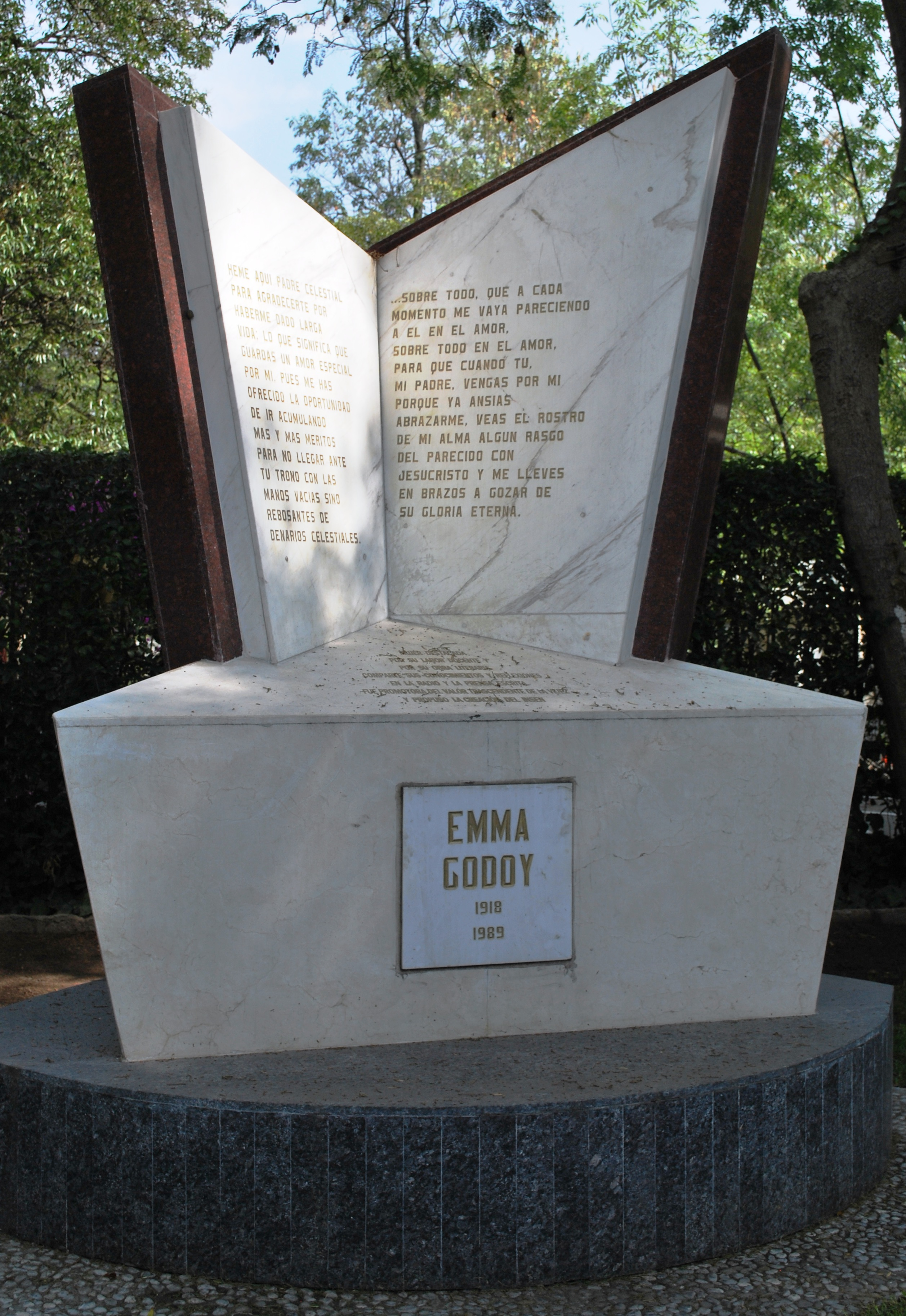 Tomb of Emma Godoy in the Panteon Civil de Dolores cemetery in Mexico City